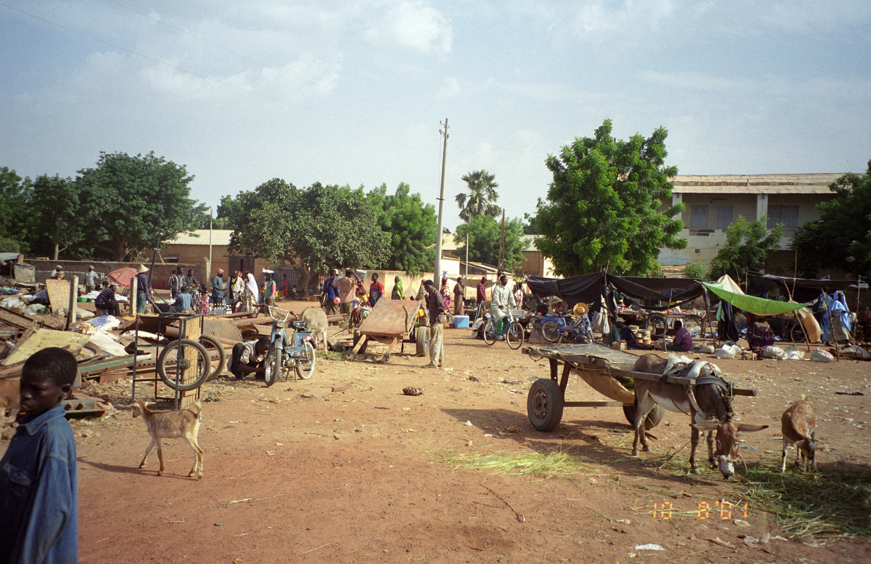 Segou Market, another shot of the edge of the market on market day